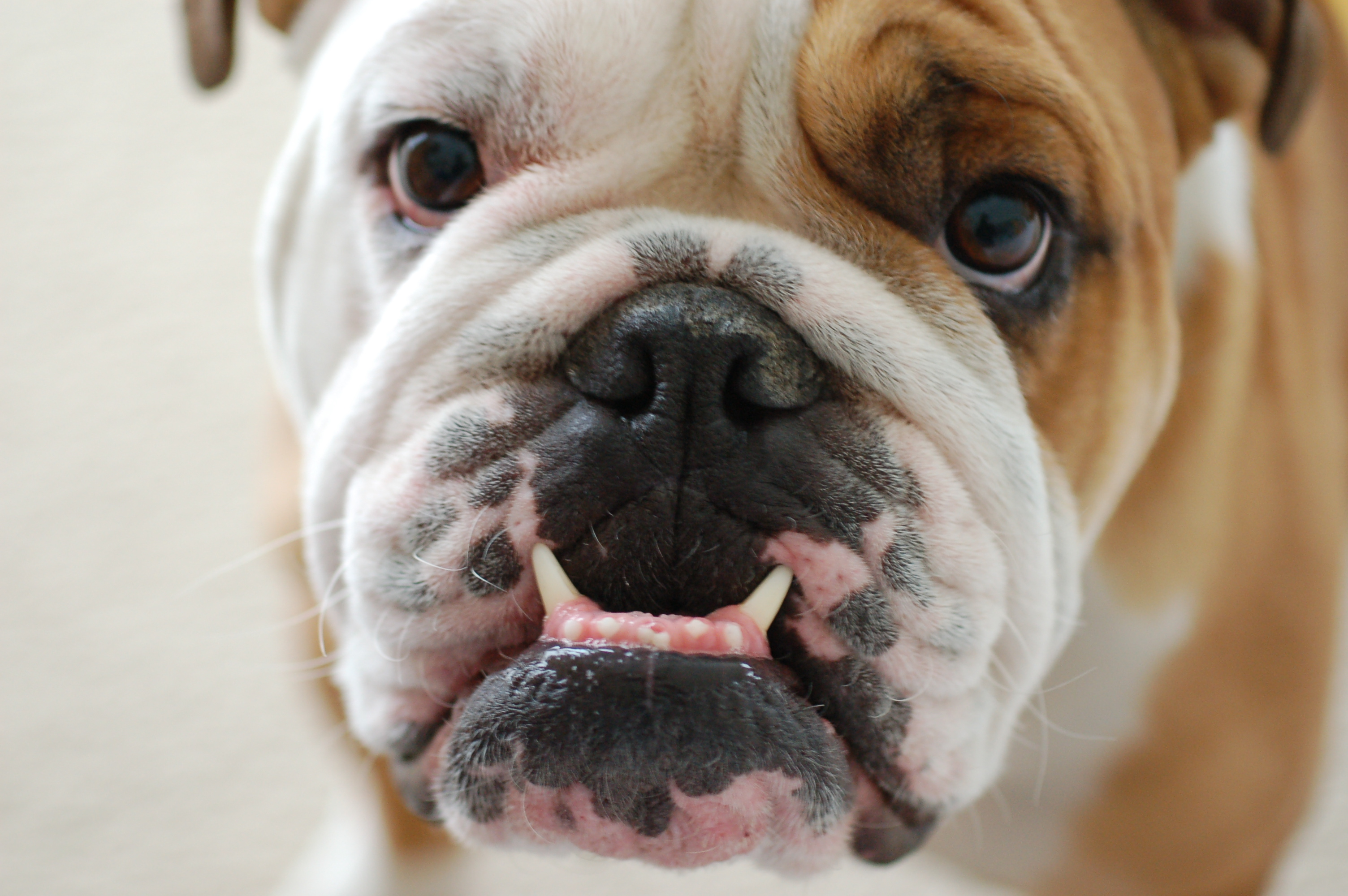 A portrait of a Bulldog named Frank.